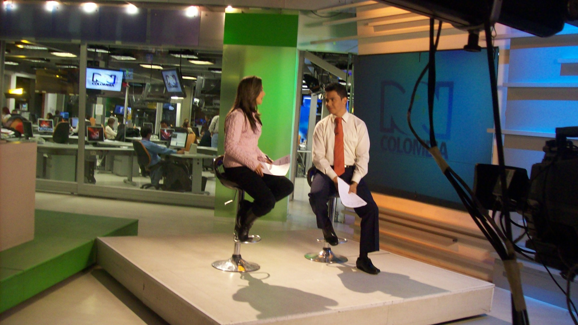 Oliver Diglesias co-anchoring with Ana Maria Hernandez Colombia News in English, Weekend Edition at RCN Studios in Bogotá, Colombia